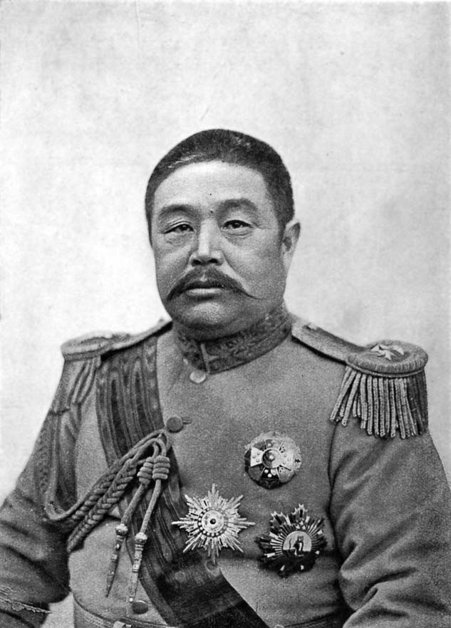 Chinese politician and President of the republic Li YuanHong.